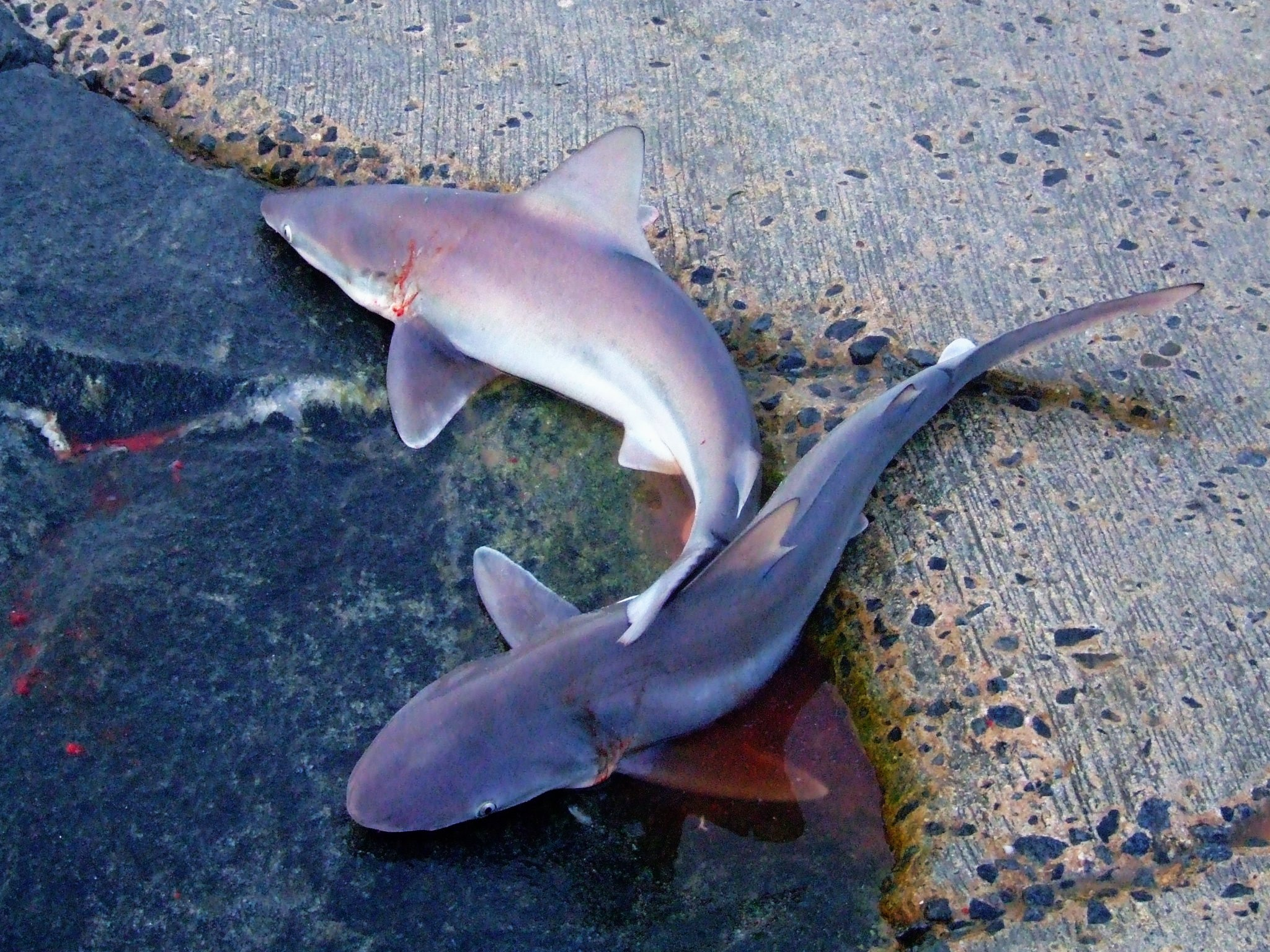 Sand Sharks at Bethany Beach, Delaware. The Delmarva Peninsula contains much biodiverisity and is a favorite spot for fishers